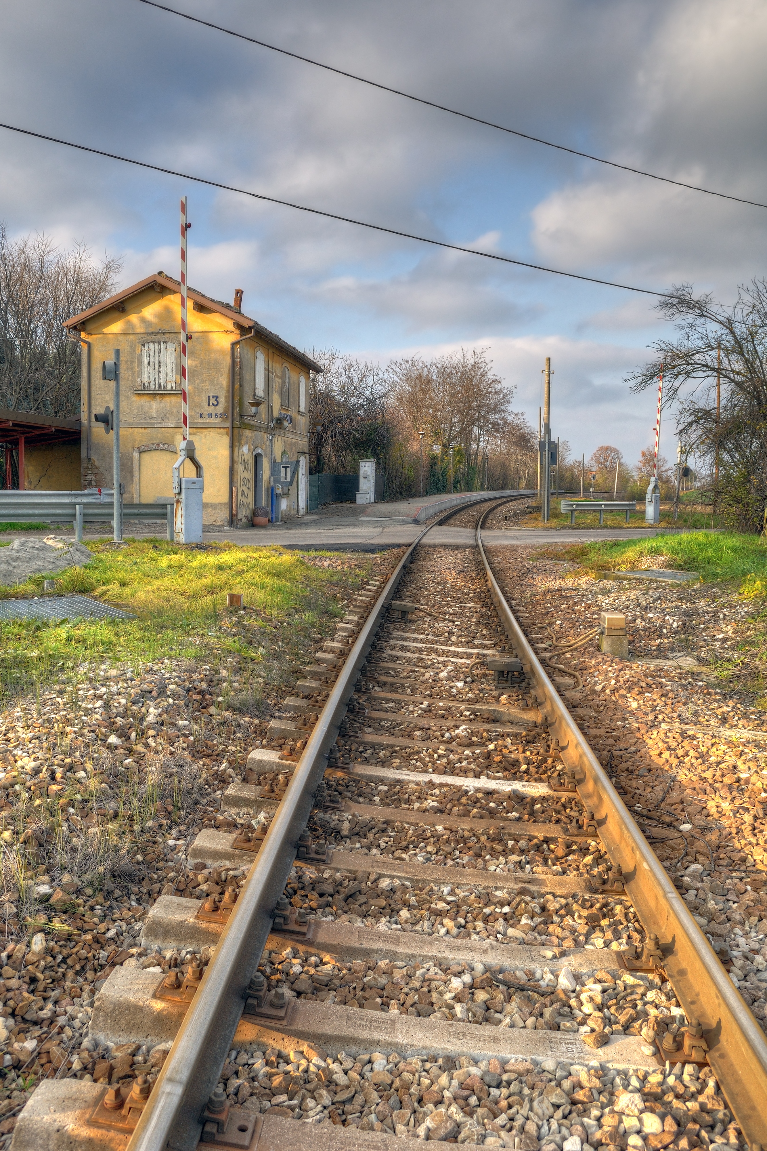 Train Station - Pratissolo, Scandiano, Reggio Emilia, Italy